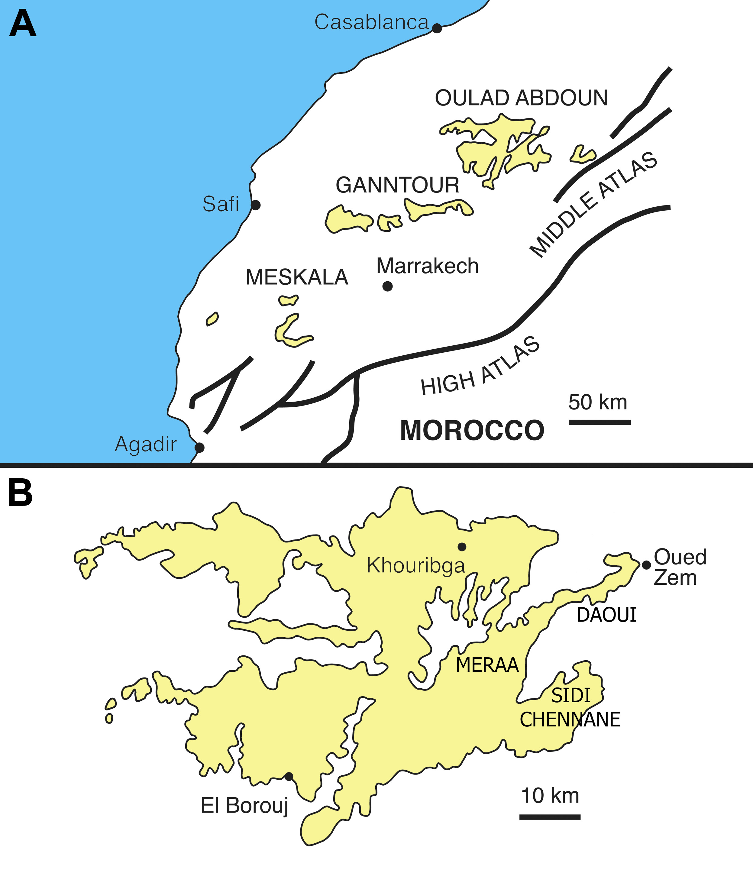 A. General geographical map of Morocco showing the main phosphatic basins (Ganntour and Oulad Abdoun basins). B. details of the Oulad Abdoun Basin with some major northeastern excavation areas (Daoui, Meraa El Arach, Sidi Chennane)